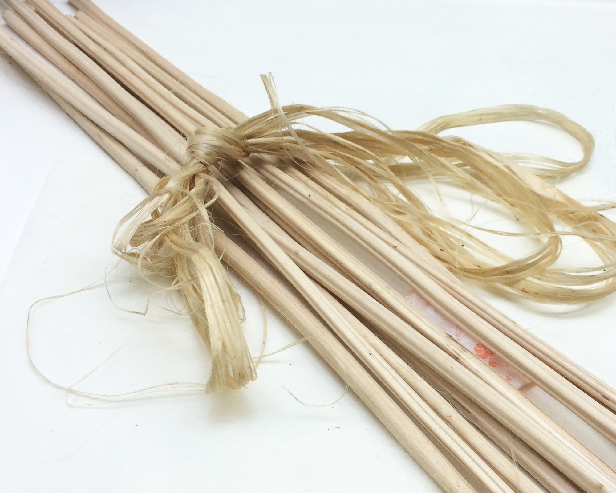 Fibre of the Hemp.